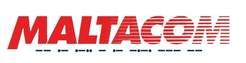 Logo of the former Maltese telecommunications company Maltacom